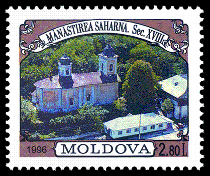 Stamp of Moldova